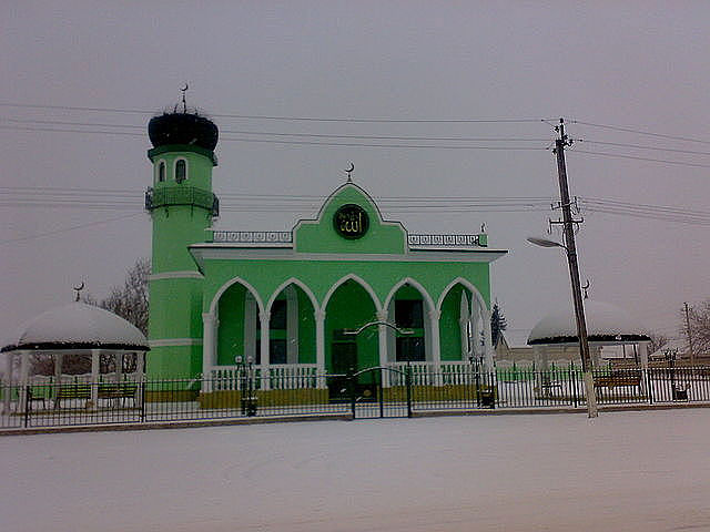 Mosque in Altud